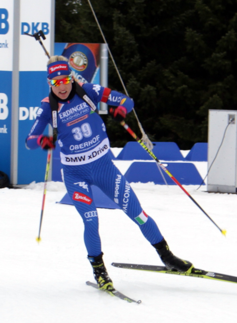 2018 Oberhof Biathlon World Cup - Pursuit Women